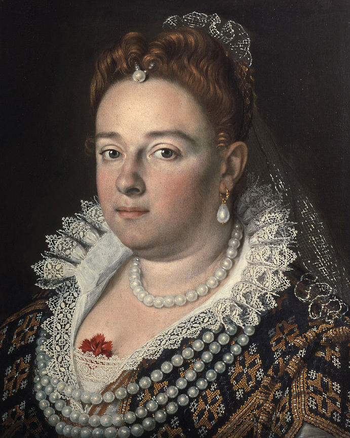 Portrait of Bianca Cappello (1548 – 1587) The Portrait of Bianca Cappello, by Scipione Pulzone. The picture note is headed, somewhat misleadingly, I think, "A Portrait Makes a Career". It says "Between October 1585 and 1586, Scipione Pulzone, called Gaetano, ((1540/42 to 1590) painted a portrait of Bianca Capello (1548? t0 1587) that te sitter presented to the Venetian patrician Francesco Bembo. During his sojourn in Florence, Bembo had seen and admired a portrait of Bianca by Plzone, and had asked for a smaller copy of it. A livel correspondence between Bianca and Bembo ensued that discussed the portrait and its production, recording its genesis and an important 'technical' aspect: Pulzone asked the Grand Duchess to provide him with ultramarine, an extremely costly pigment made of lais lazuli. This hint prompted us to use X-ray fluorescece analysis to determine whether Bianca's blue dress really does contain ultramarine; it revealed clear traces of lapis lazuli, allowing us to identify thi spainting as the portrait Bianca gave to Bembo. In the autumn of 1563, Bianca, the sixteen-year-old daughter of a prominent Venetian patrician family, eloped with her lover Pietro Bonaventuri to Florence. Once there, Bianca asked Francesco de'Medici for protection, and soon they were having an affair that would continue until the end of their lives. Shortly after the death of Francesco's wife, oanna of Austria, in 1578, the tw lovers were secretly married. A year later the official wedding was celebrated in Florence. Bianca was made a daughter of the Republic of Venice and crowned Grand Dchess; Bianca's reputation, which had been ruined by her elopement, was thus rehabilitated, and all of Venice was proud of the city's prominent daughter. In 1586 Bembo presented this portrait to the Venetian public in a formal procession, further bolstering the Grand Duchess's reputation in her home town."